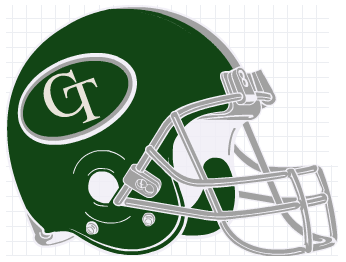 Cthelmet212